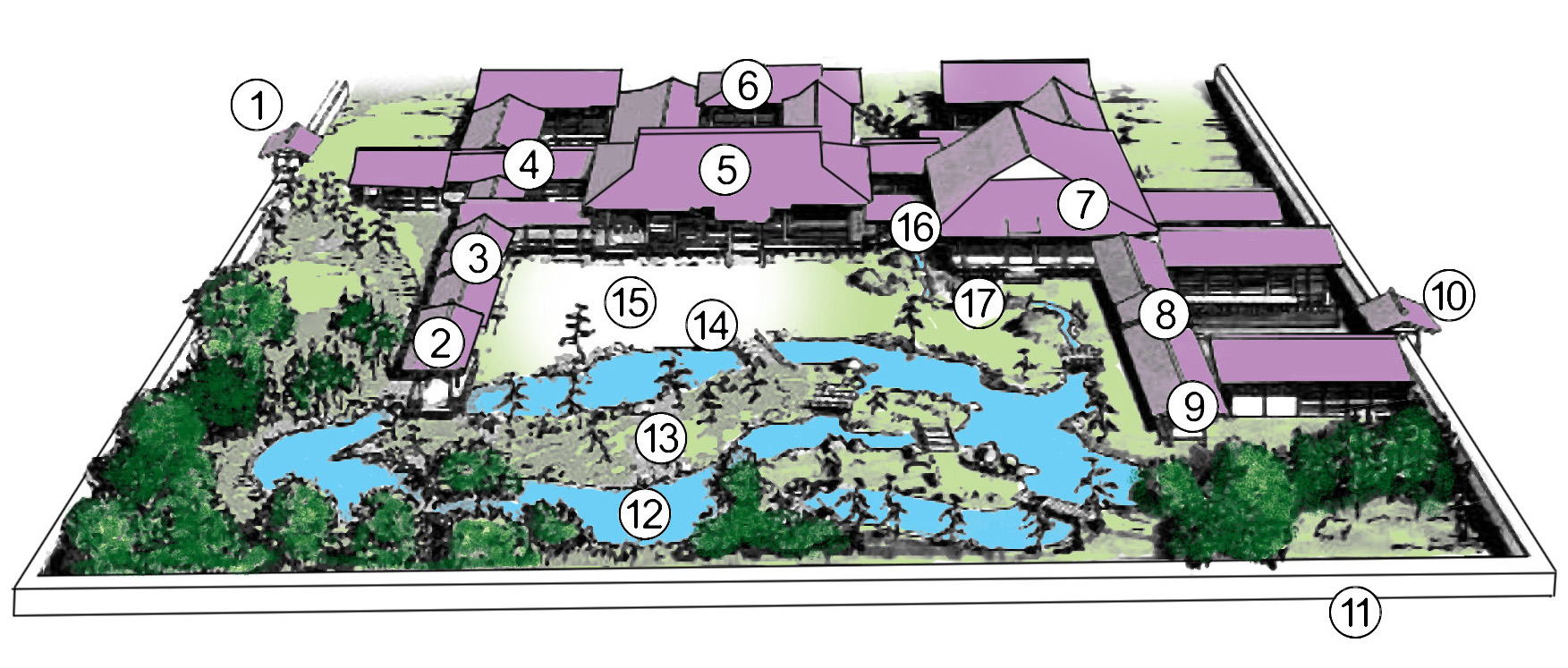 Shinden-zukuri garden style